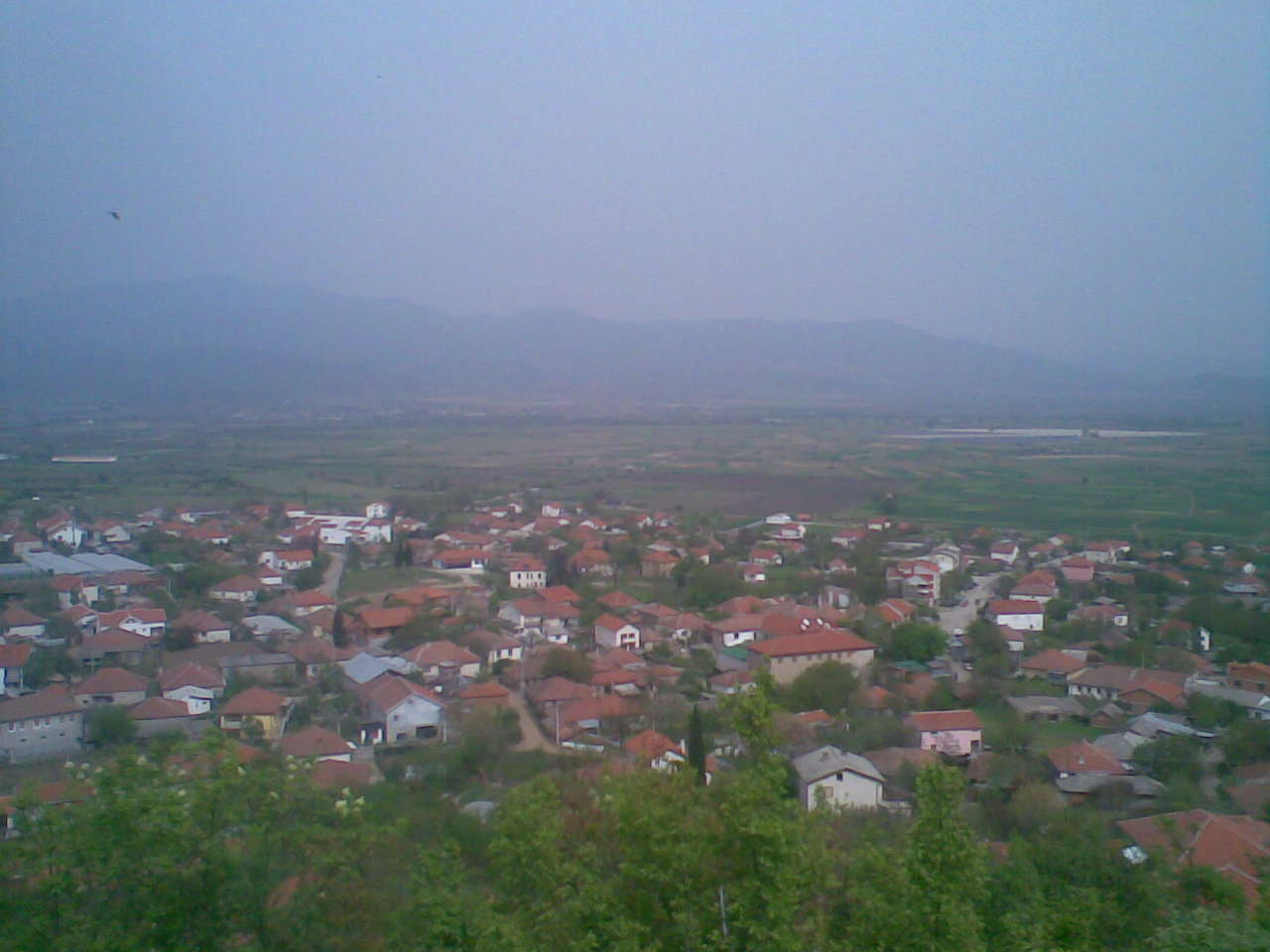 A view of Miravci, a village in the Republic of Macedonia.